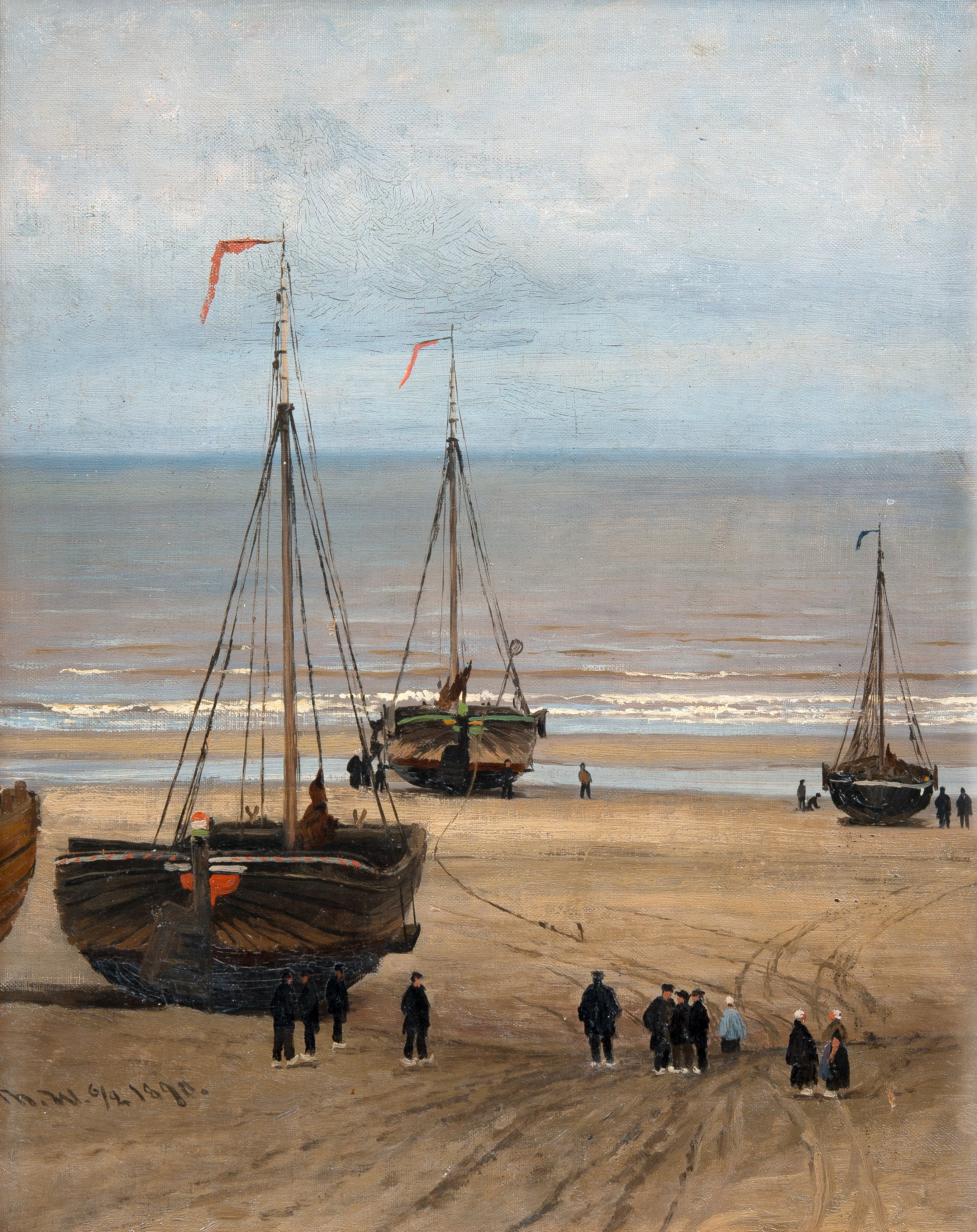 Waenerberg Coastal scene from the Netherlands. 6/2 1890. Oil on canvas 48x39 cm.